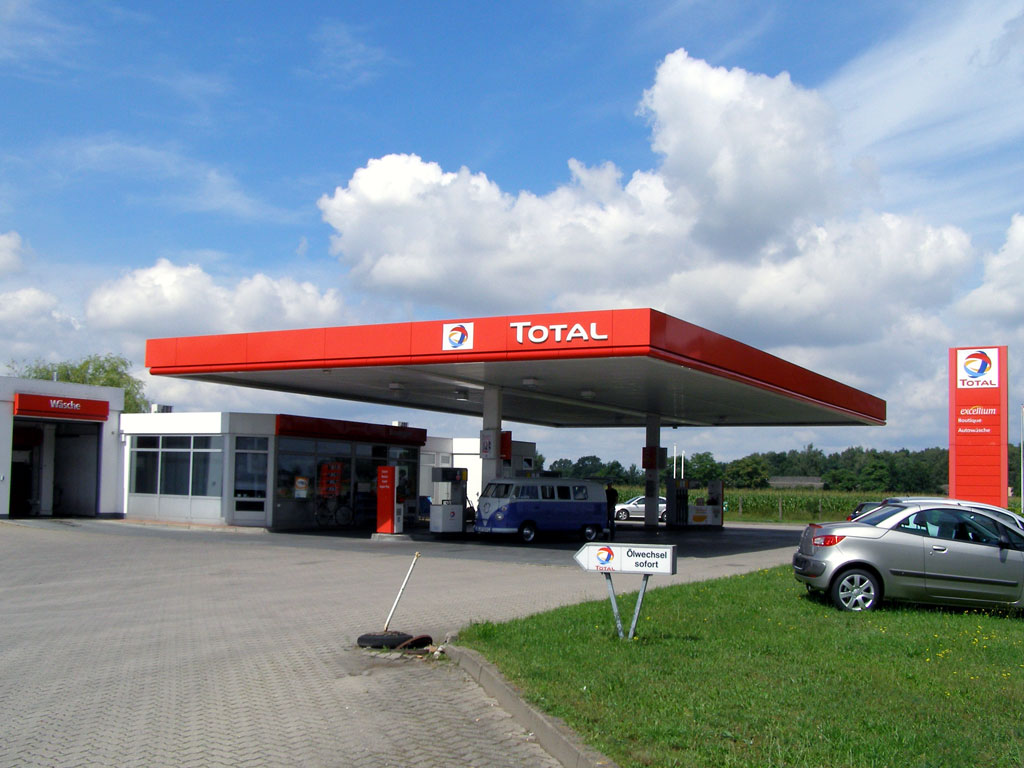 Total Petrol Station with Volkswagen Type 1 in Putlitz, Germany. Sign in the foreground says: oil change at once (in german)